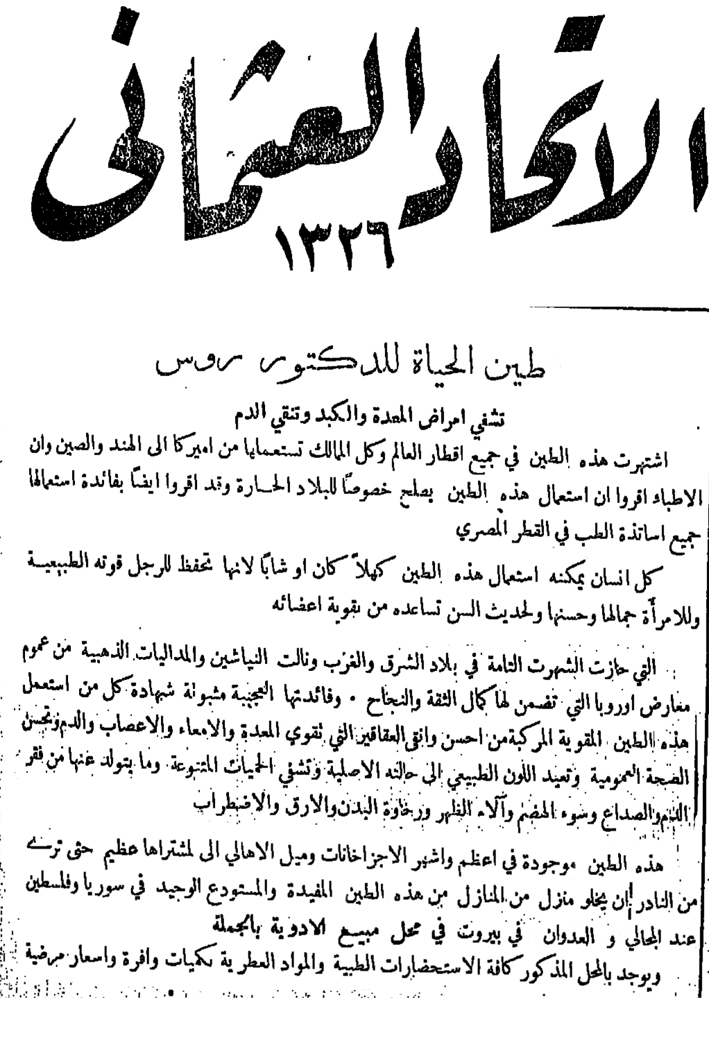 Itihad Othamani News papaer , July, 1910